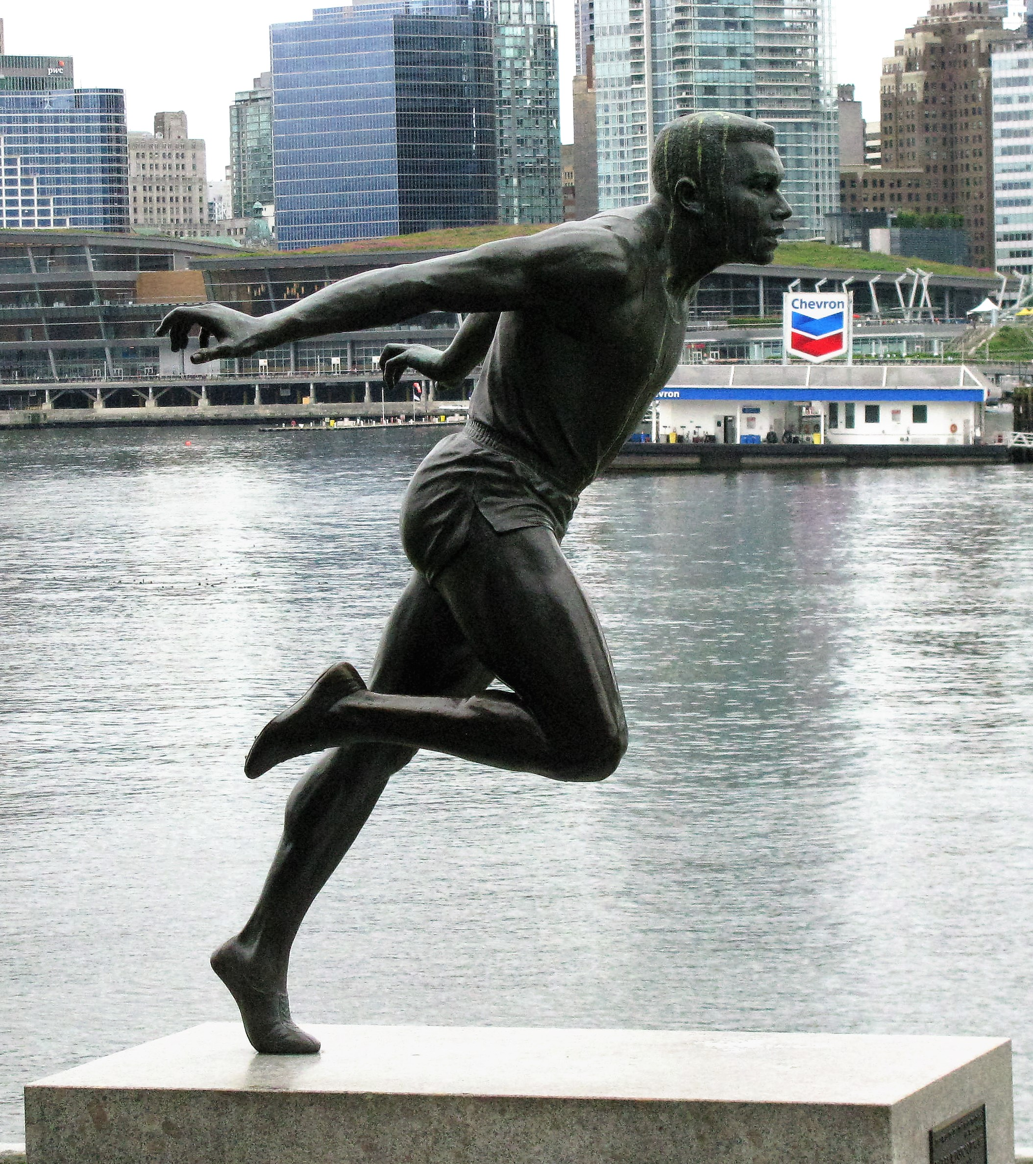 Statue in diagonal position showing the Canadian athlete Harry Jerome running, located on the waterfront by Stanley Park, Vancouver, British Columbia, Canada.